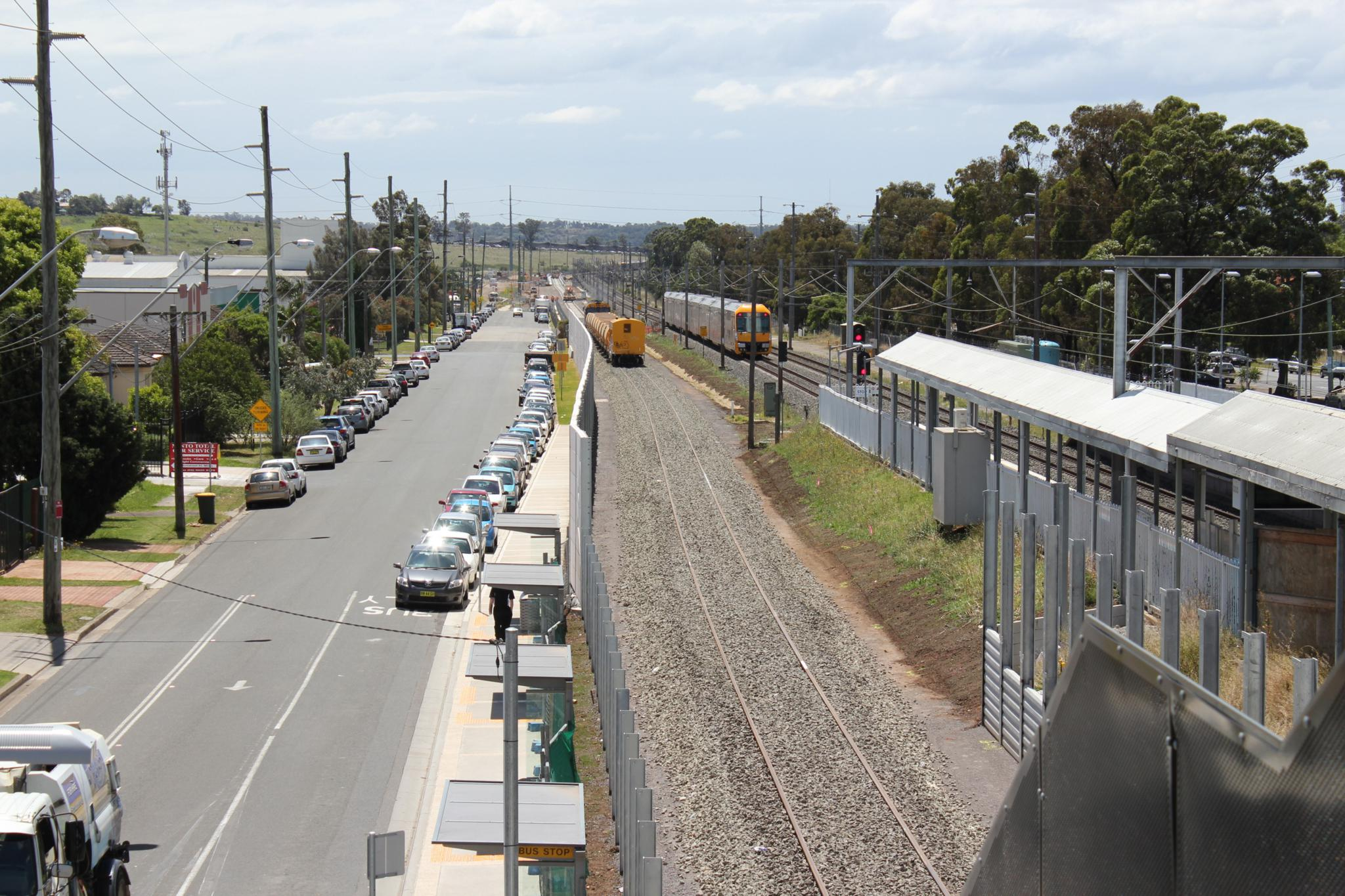 facing north